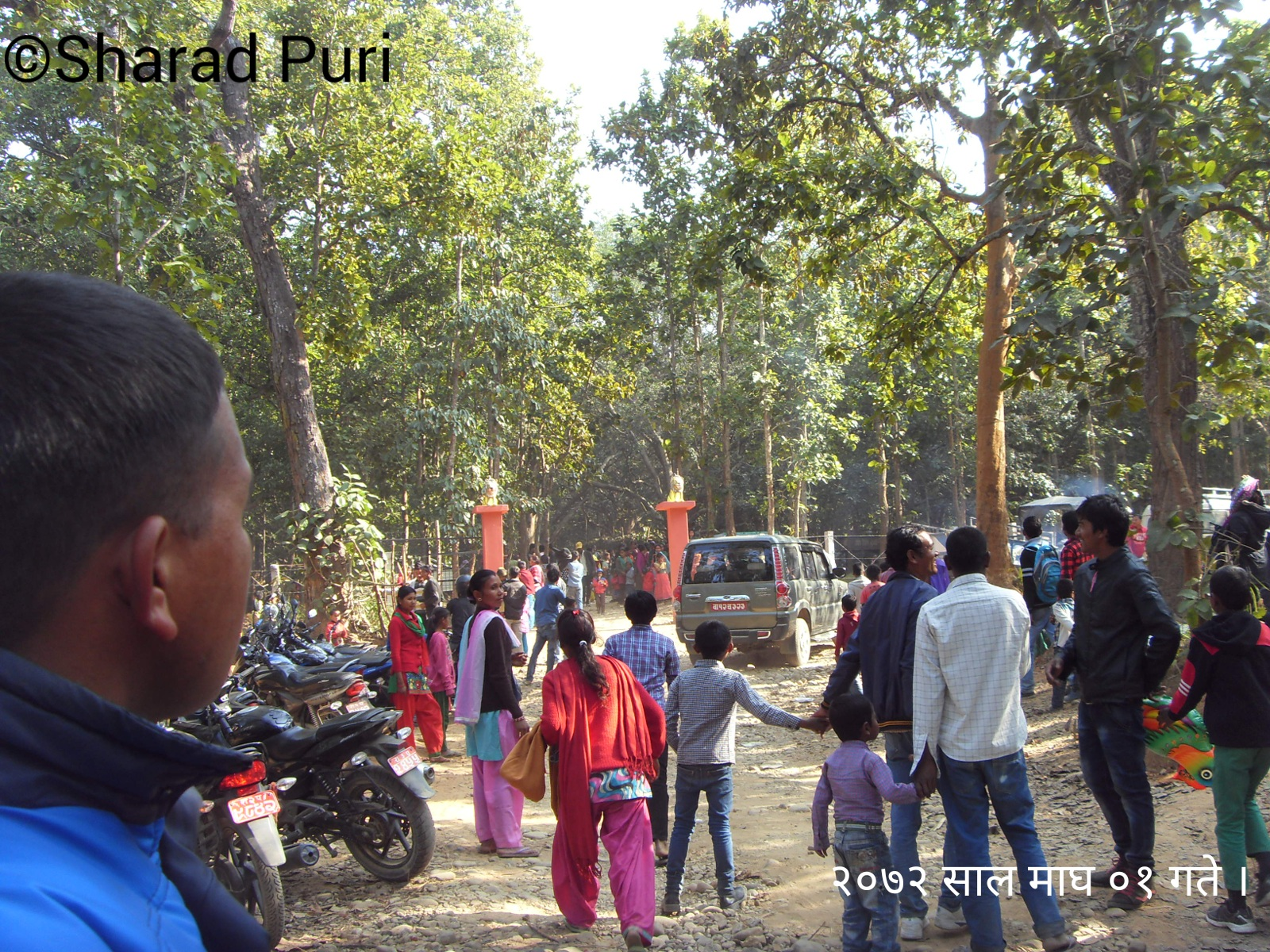 This is a buffer region of that holy place.